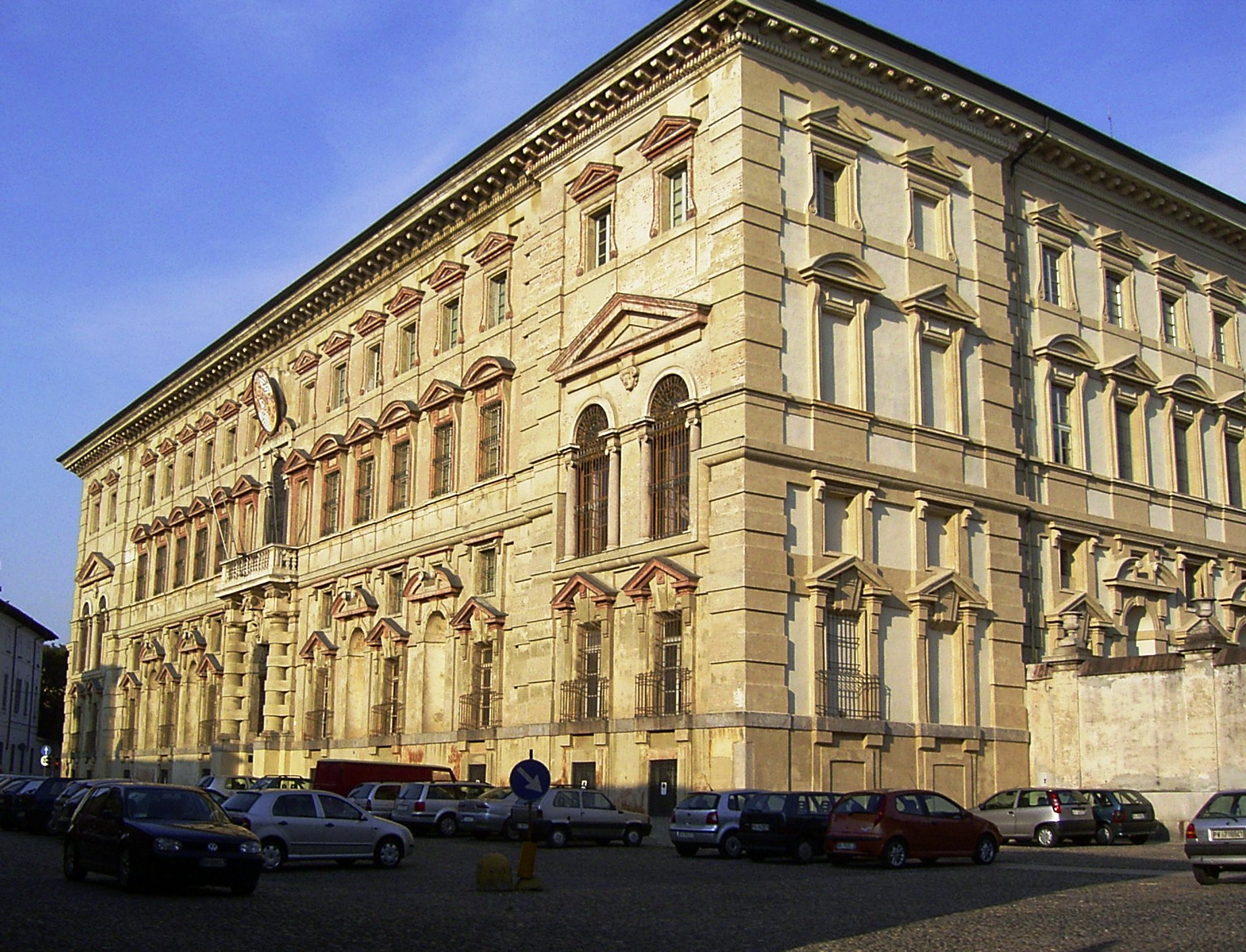 Collegio Borromeo, one of the historical university residences in Pavia.